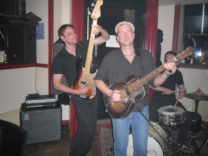 Danish blues band